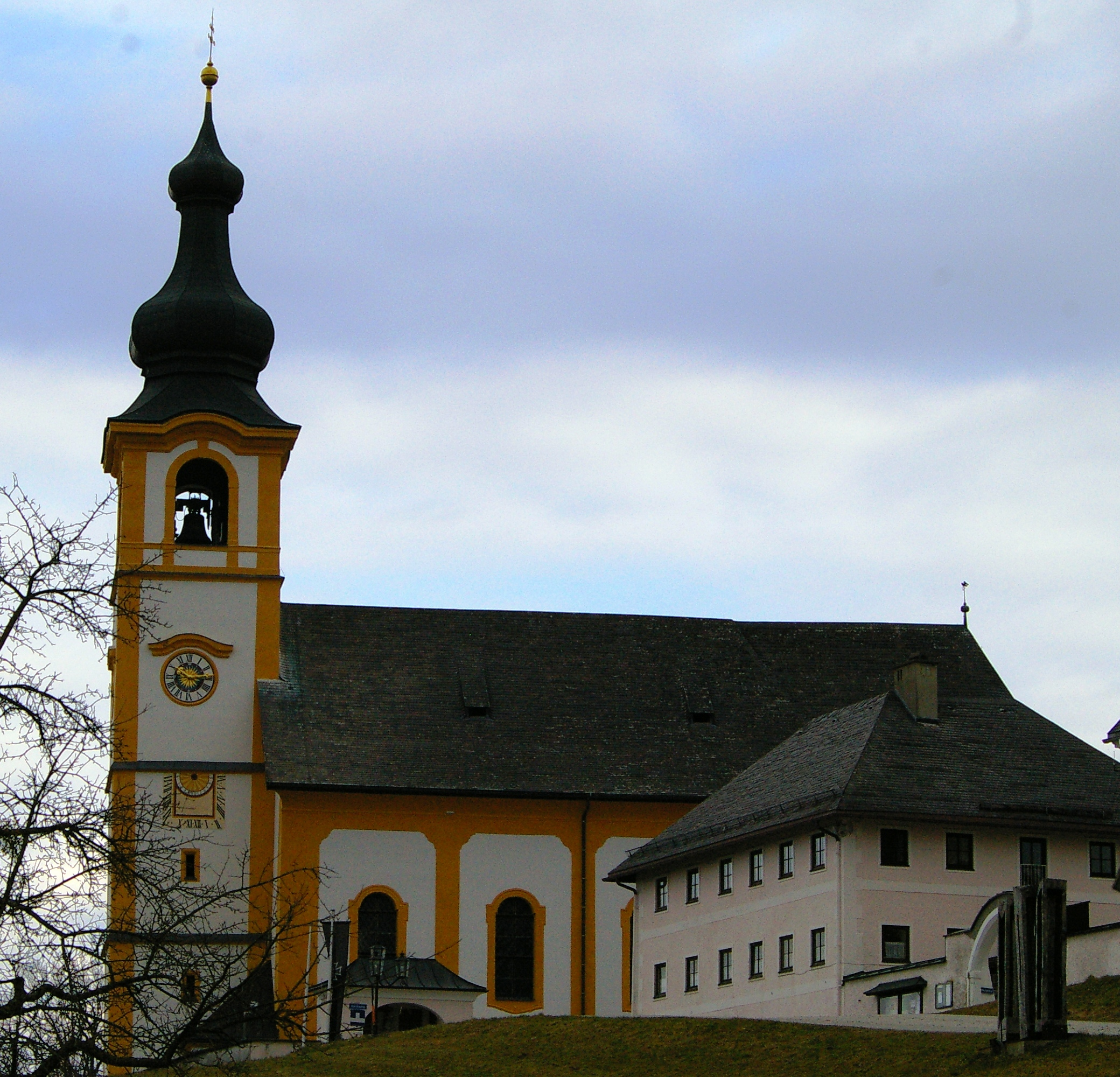 parish church St.Georgen bei Salzburg